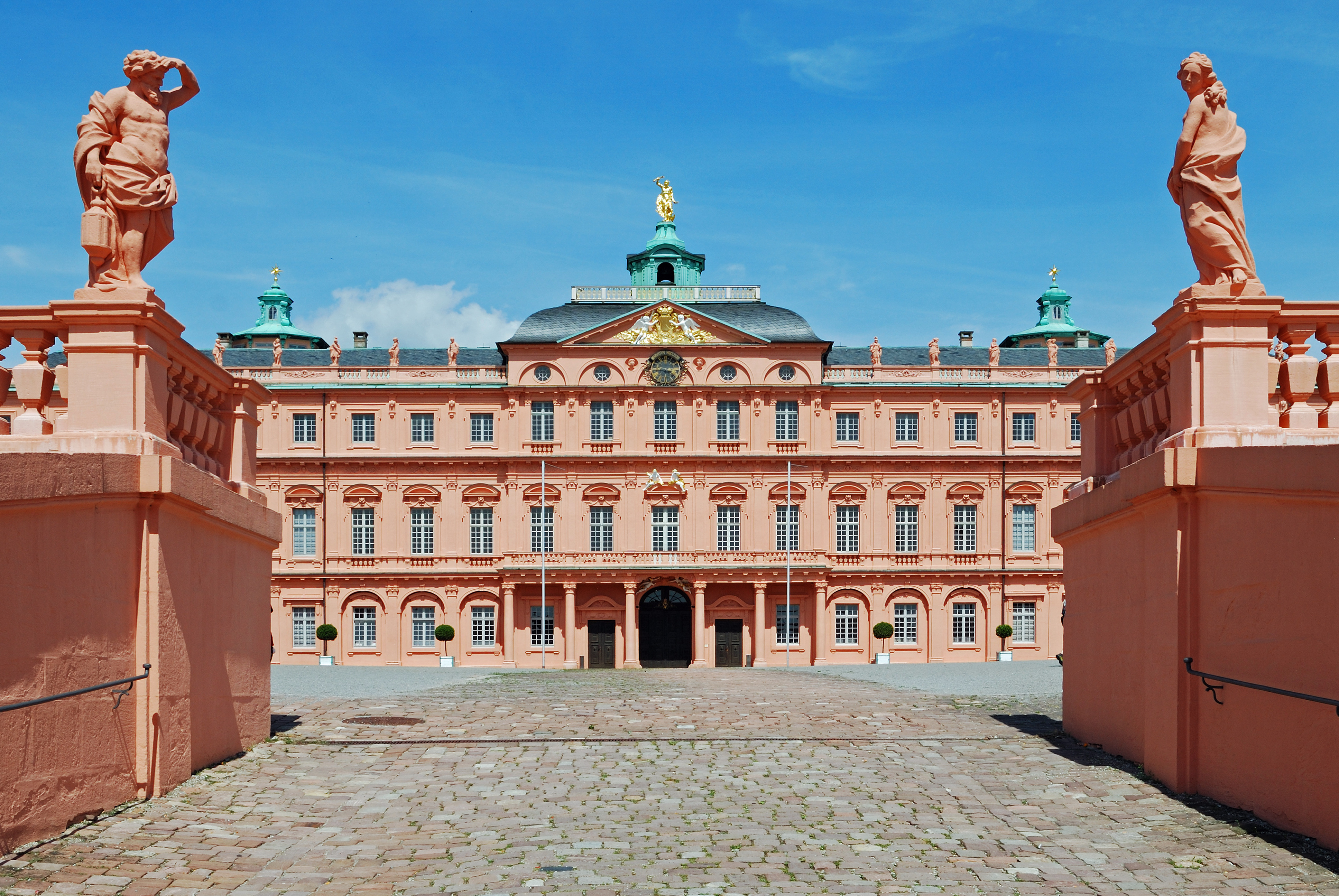 Residenzschloss in Rastatt in the federal state Baden-Württemberg in Southern Germany.